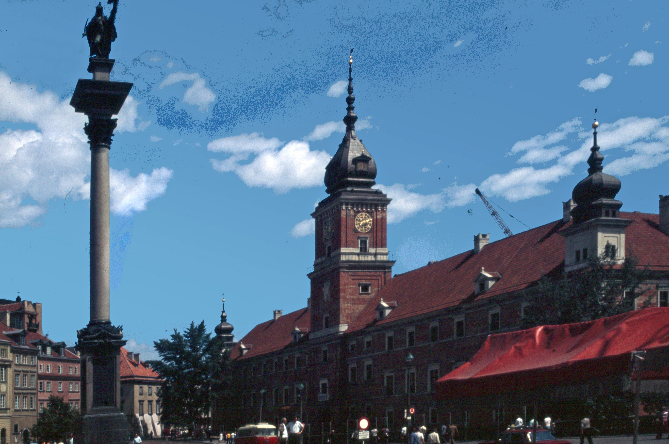 Warsaw in Poland 1975